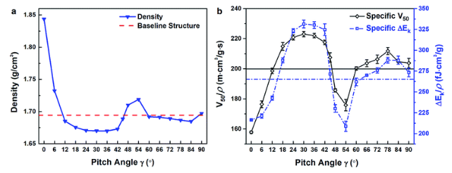 Density as a function of pitch in the Bouligand structure and ballistic limit velocity / energy absorption over this same range of pitches in the Bouligand structure